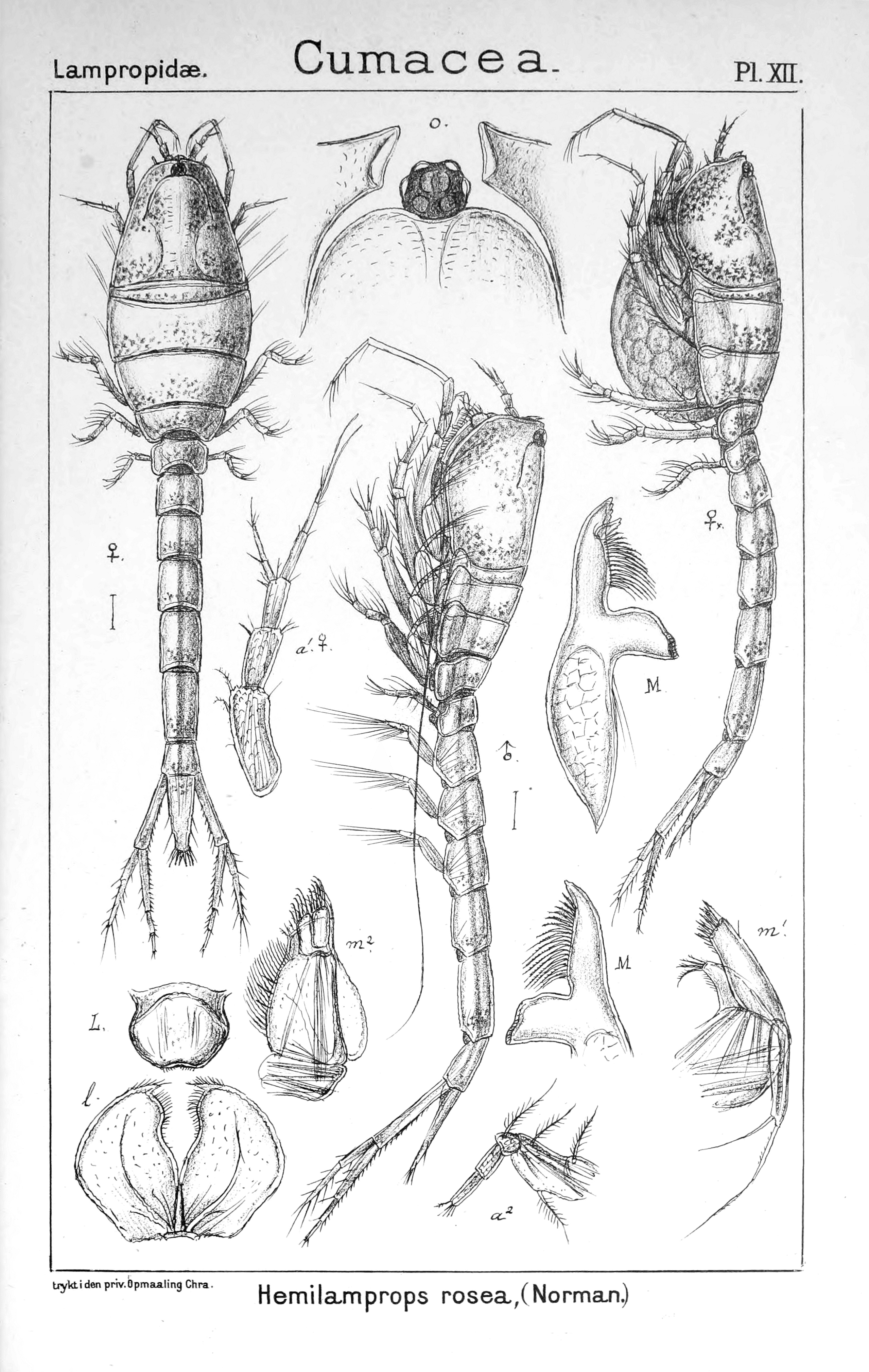 Plate XII from Sars, G. O., (1900). An account of the Crustacea of Norway: Cumacea, Bergen Museum.